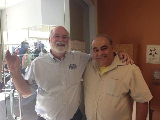 A picture of Father Greg Boyle of Homeboy Industries and Dennis Sanchez of East Side Spirit and Pride